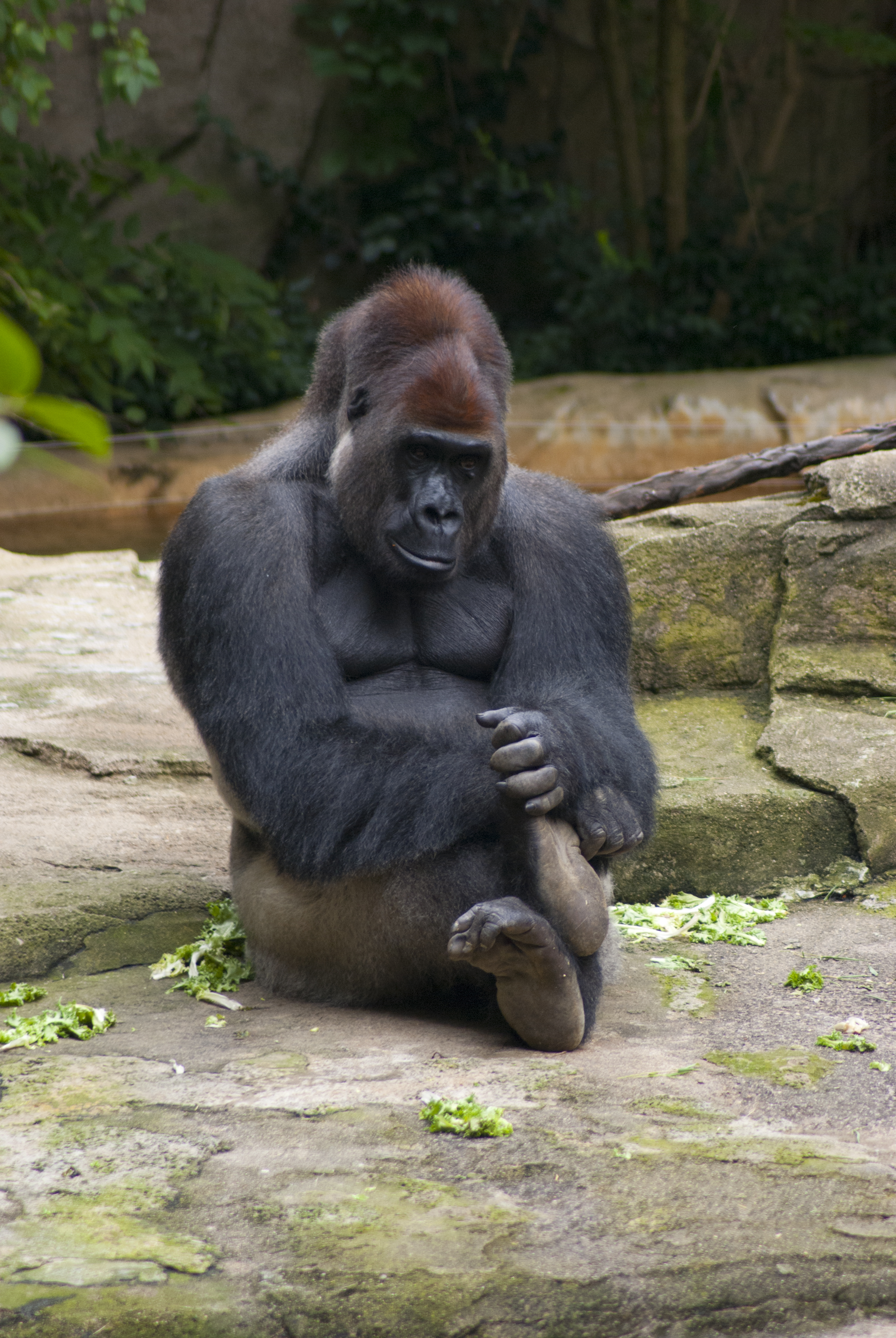 Gorilla at the Cincinnati Zoo